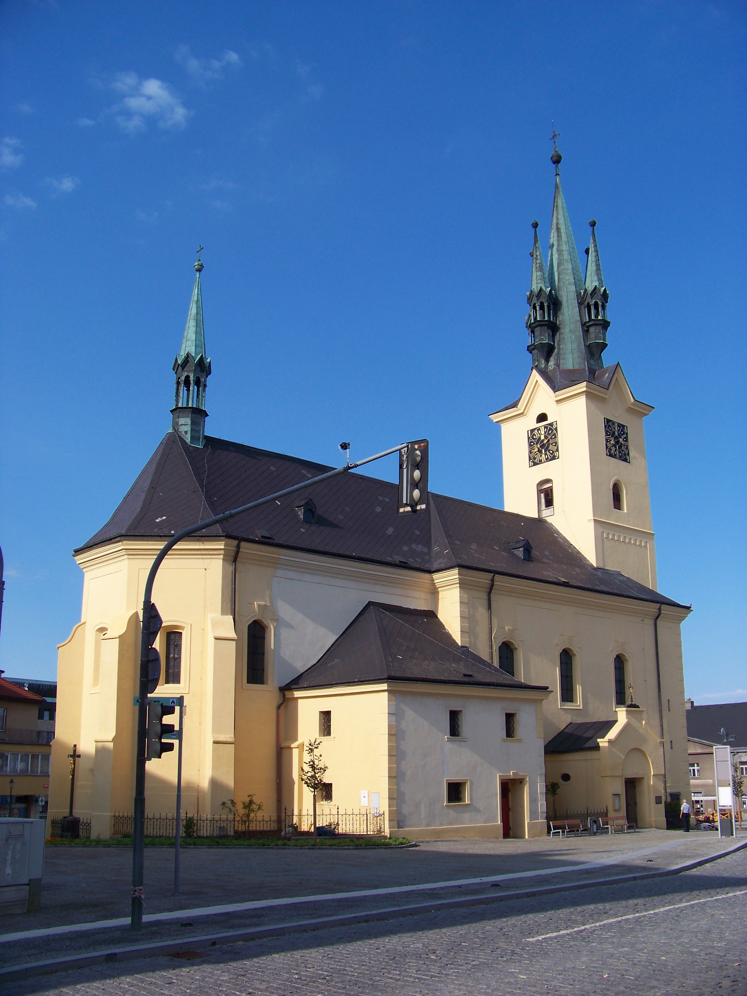 Příbram I, Příbram District, Central Bohemian Region, the Czech Republic. T. G. Masaryk Square, Saint James Church. - OpenStreetMap(Info)